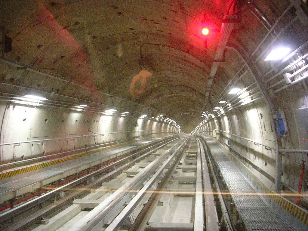 Tunnel of the metro Turin, Italy